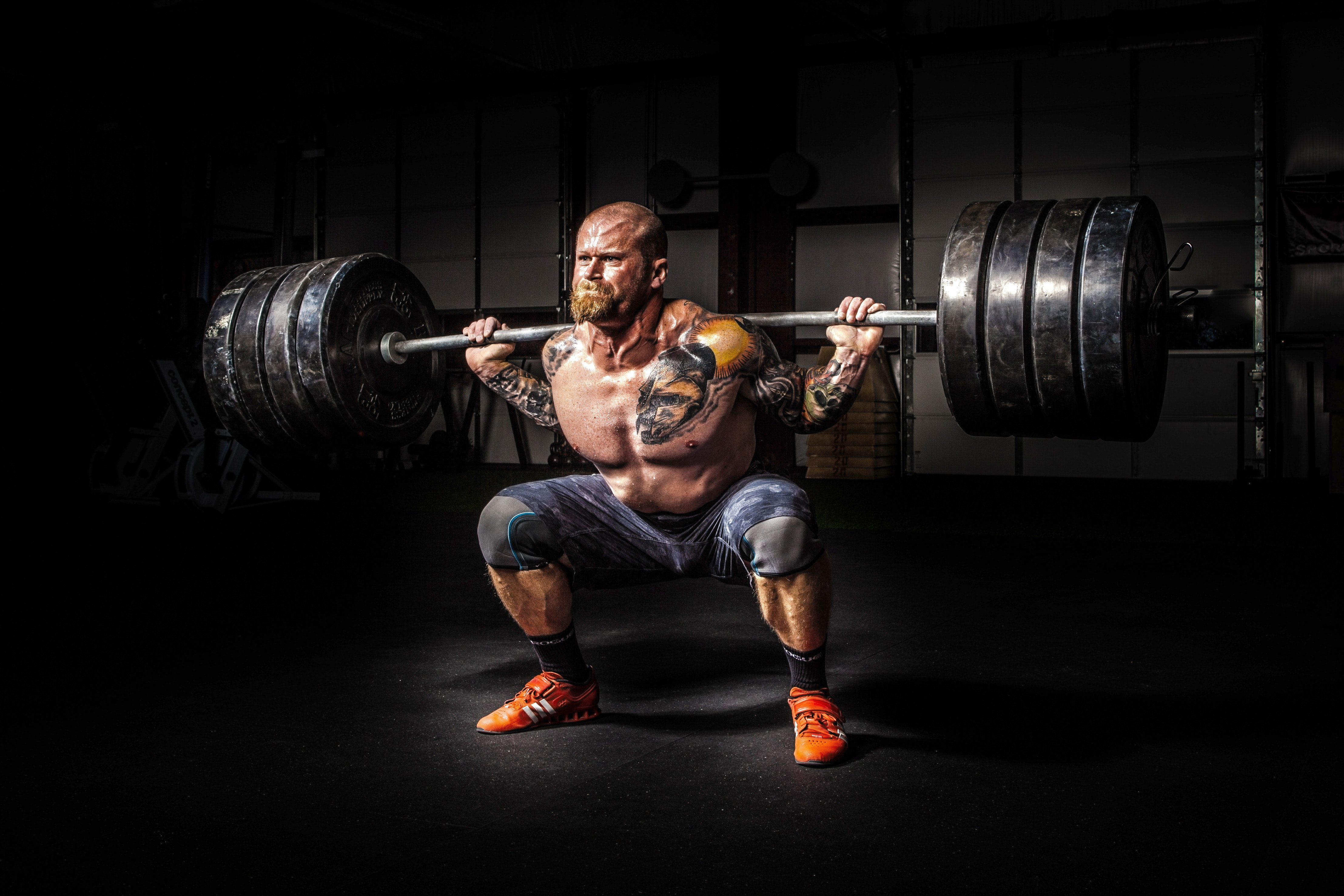 Man lifting a heavy barbell.